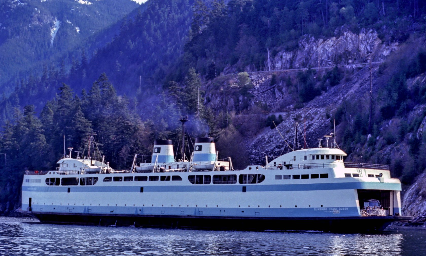 Sunshine Coast Queen in Howe Sound - c1975